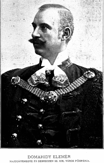 Portrait of Domahidy Elemér